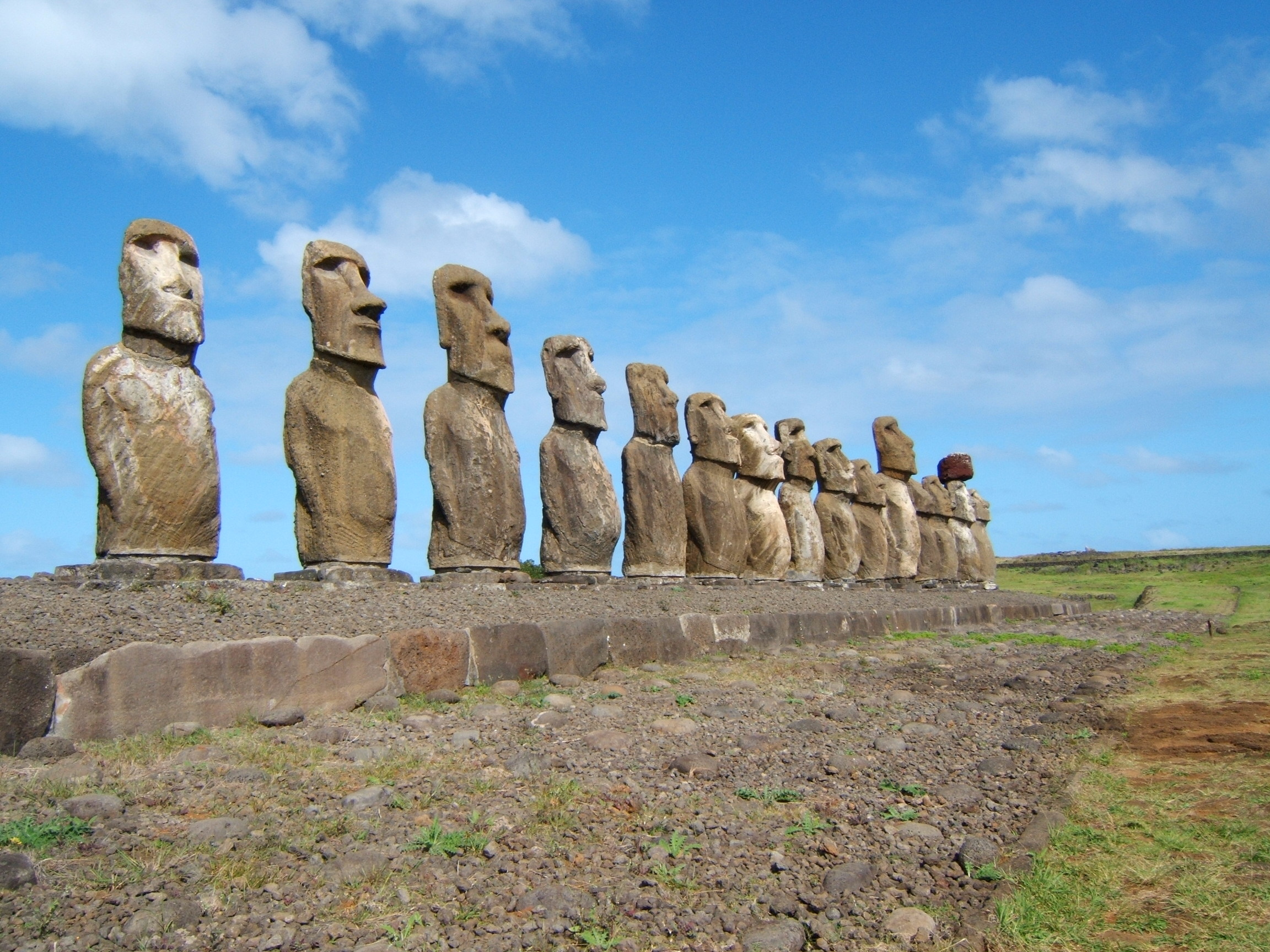 This is a photo of a national monument in Chile: 628